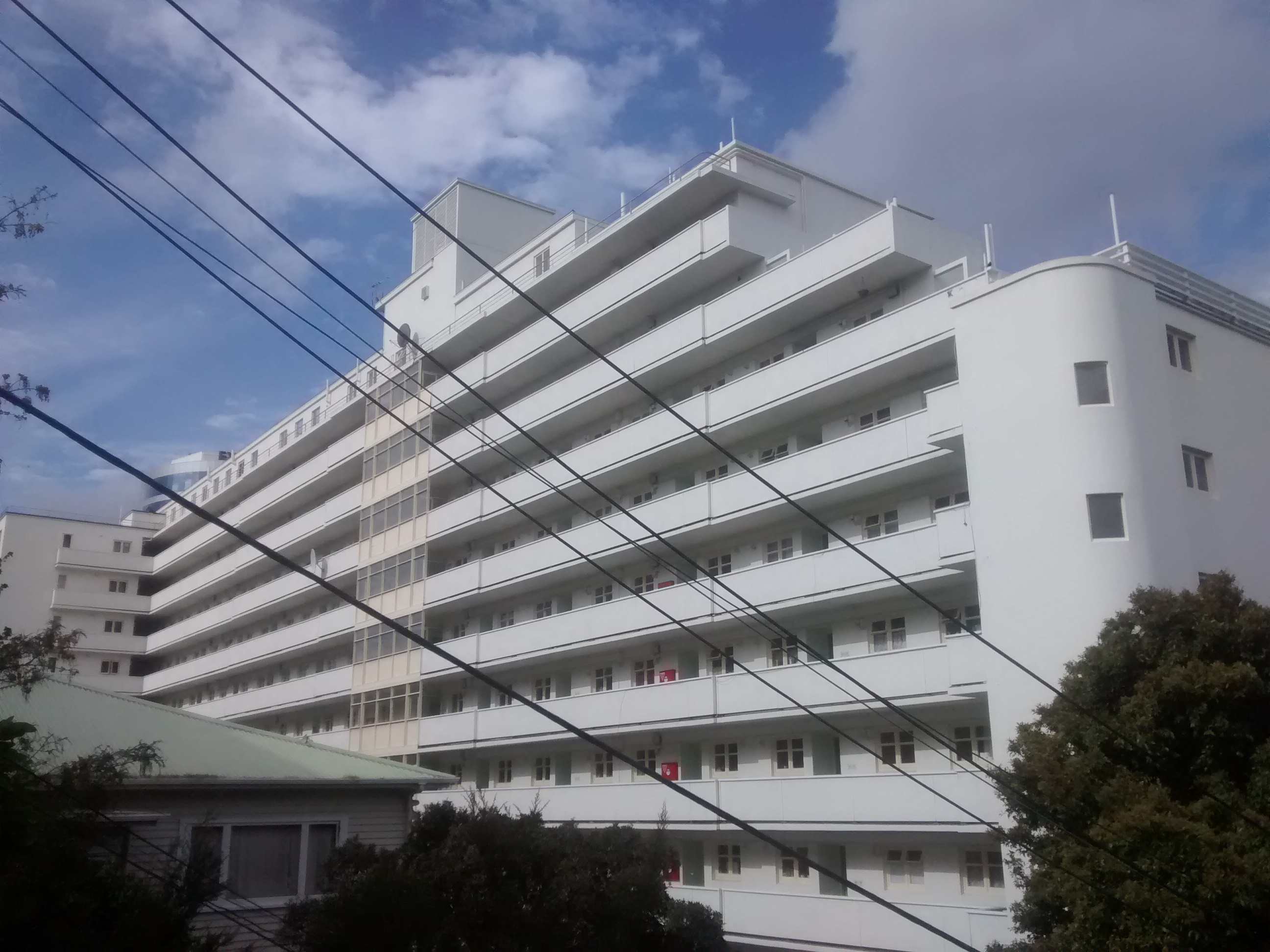 The Dixon Street Flats from about half way up the Dixon Street steps